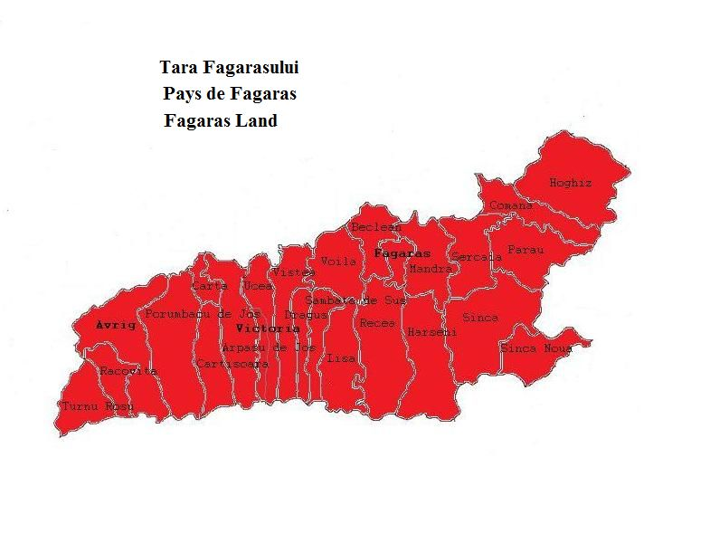 Fagaras Land, Romania